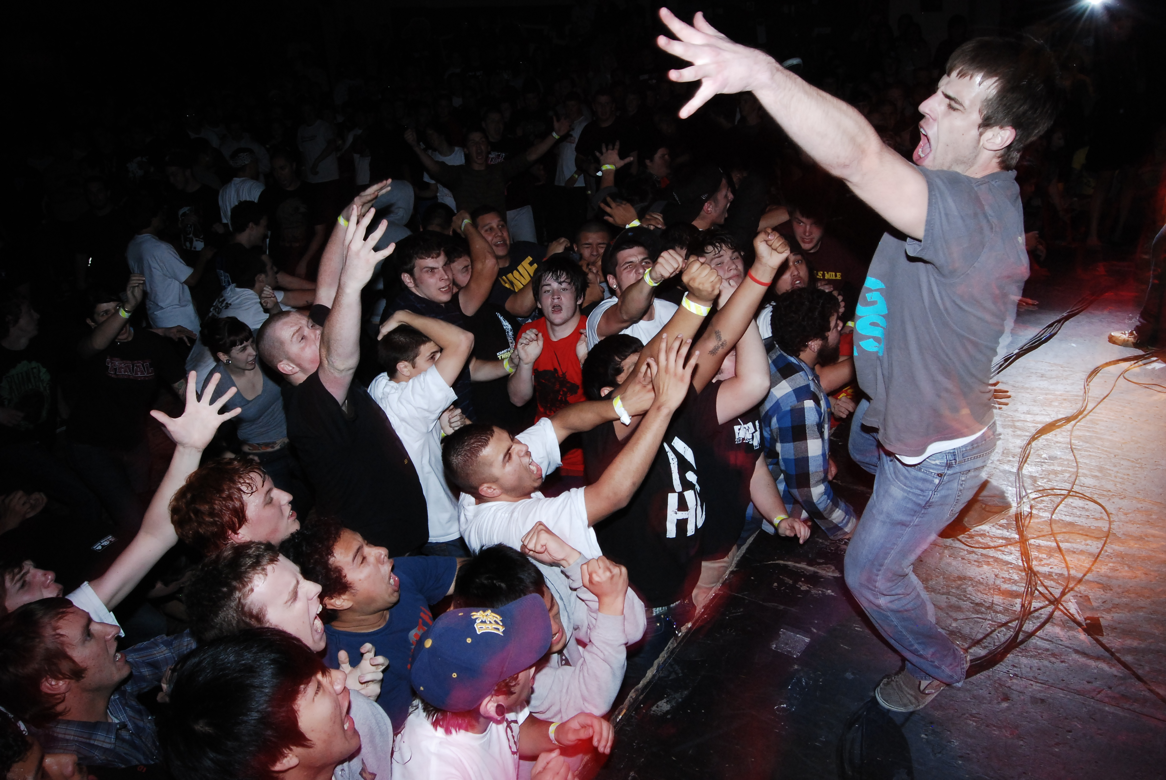 Vocalist Elijah Horner of Killing the Dream singing to a live audience at The Phoenix Theater on November 17, 2007